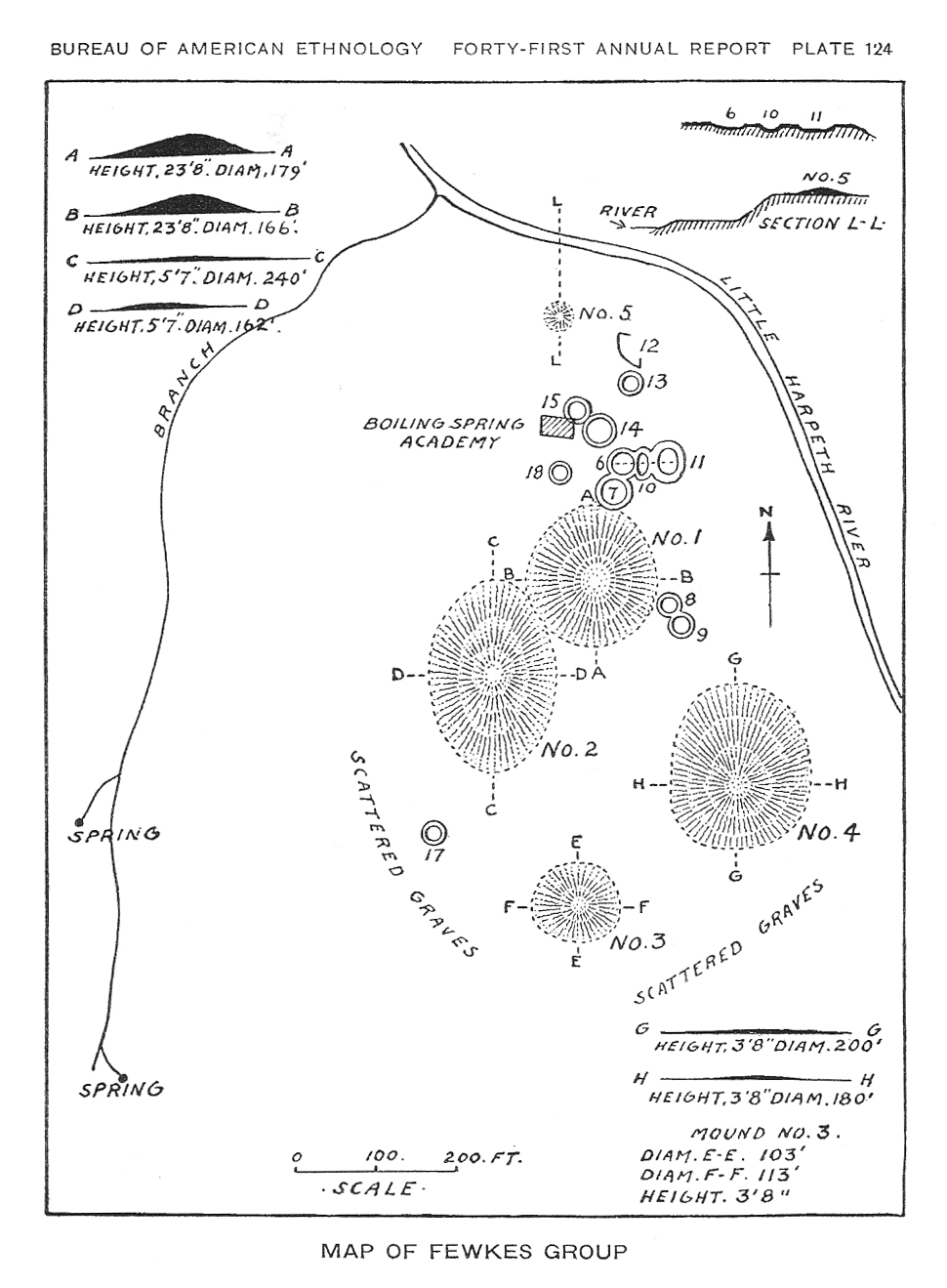 Map of the Fewkes Group Archaeological Site in Brentwood, Tennessee.